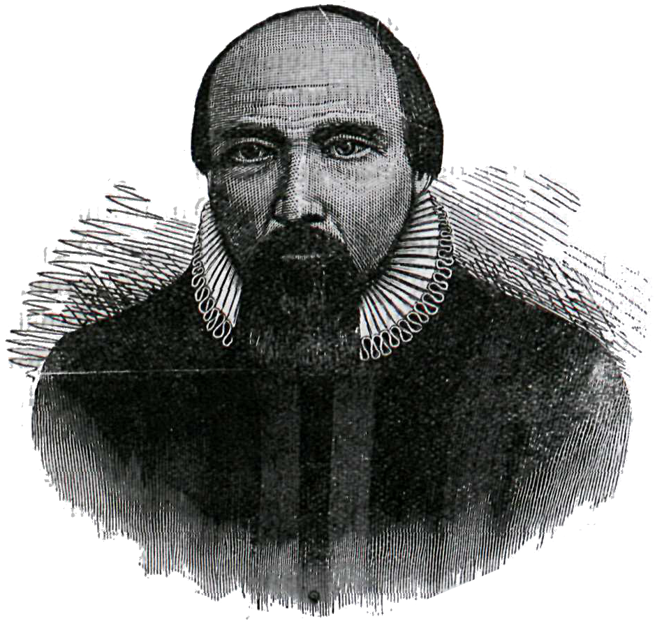 Bust of Icelandic poet Hallgrímur Pétursson (1614-1674).